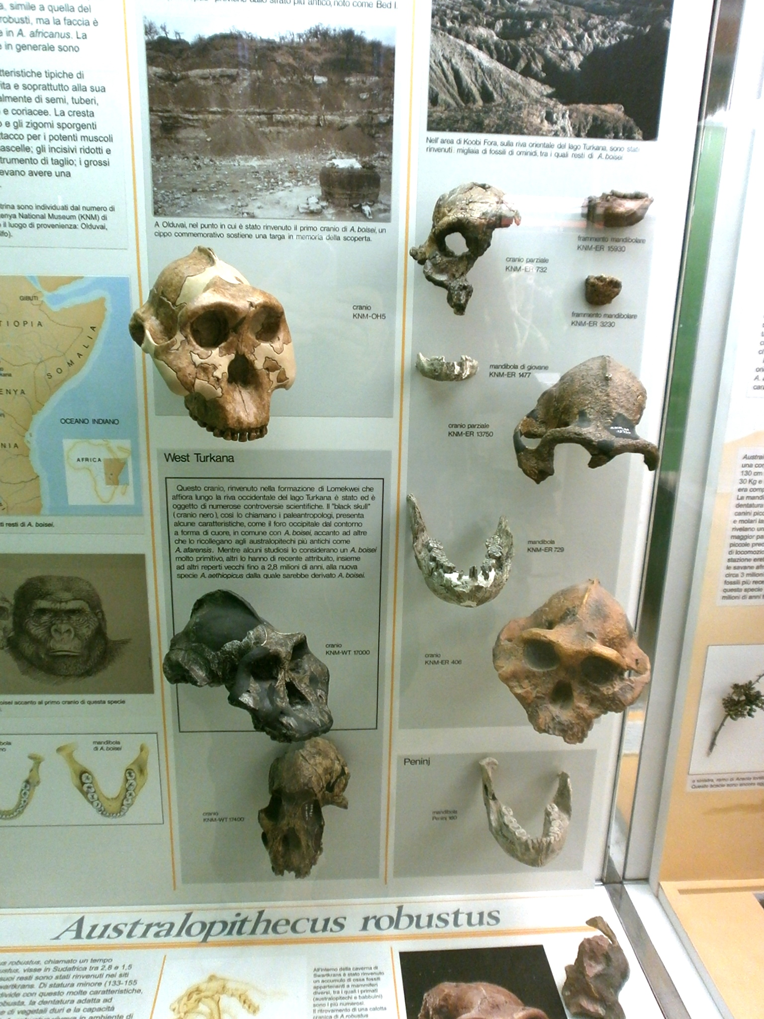 Museum of Natural History of Milan - skull fragments of Paranthropus (Australopithecus) boisei and Paranthropus (Australopithecus) robustus. KNM-ER 732 KNM-ER 15930 KNM-ER 3230 KNM-ER 1477 KNM-OH5 KNM-ER 729 Peninj 100 KNM-ER 406 KNM-WT 17000 KNM-WT 17400